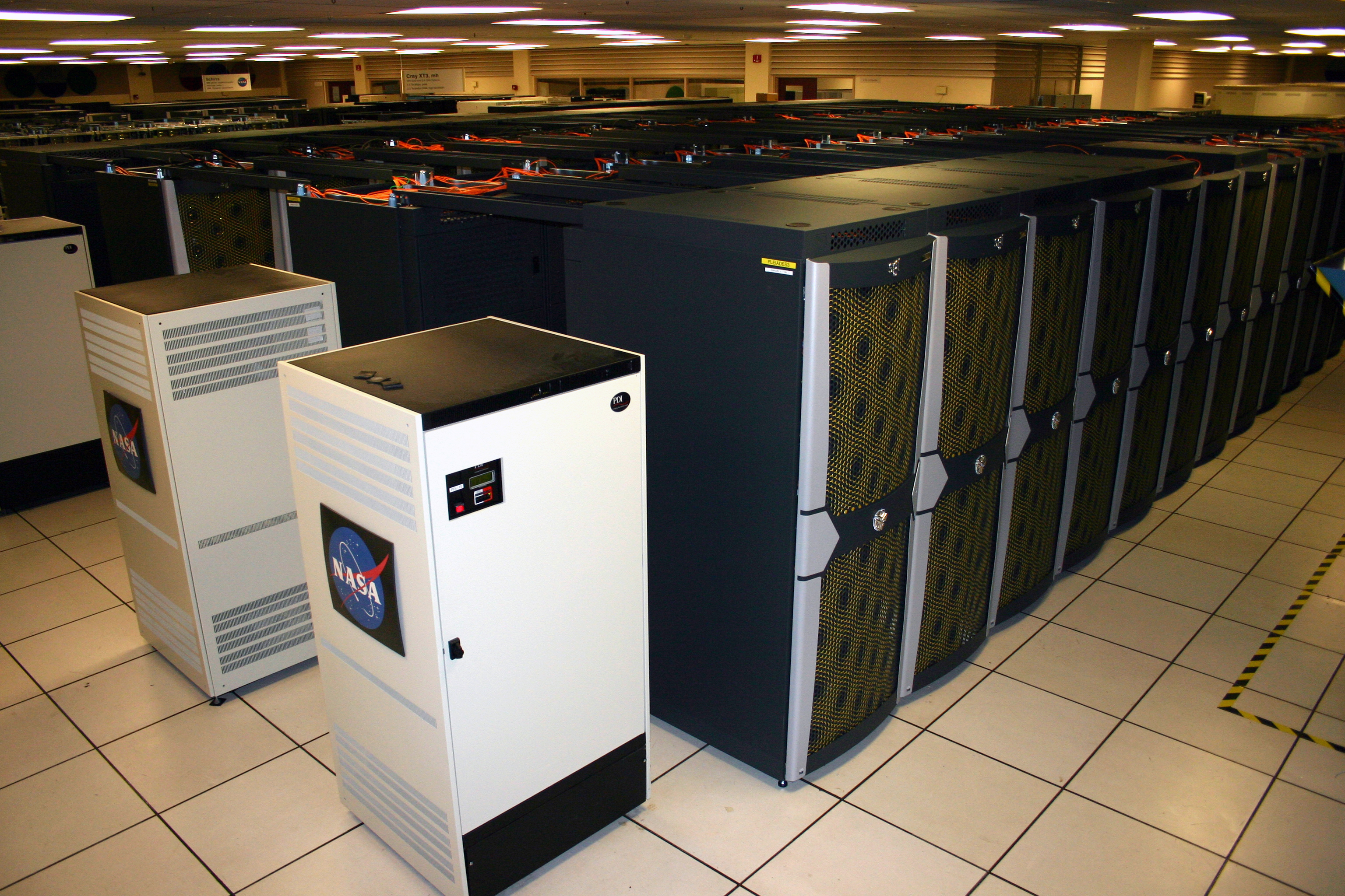 Overview of the Pleiades supercomputer built by SGI at NASA Ames Research Center in Mountain View, California.